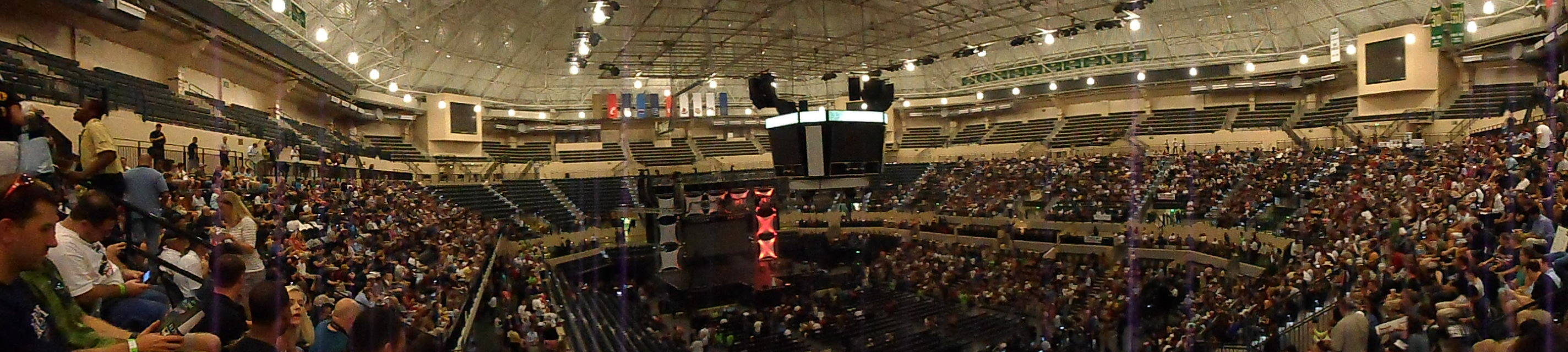 Ron Paul We are the future Rally, Sundome, Tampa, 26.8.2012